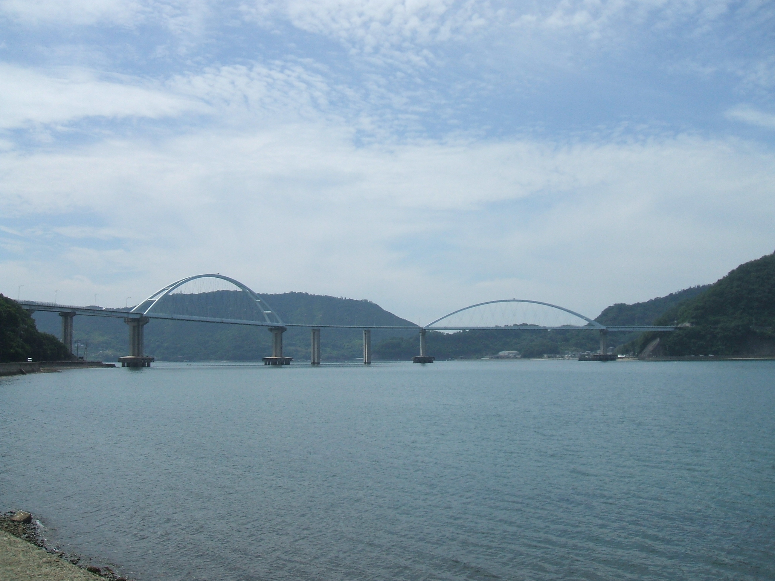 Utsumi Bridge.jpg